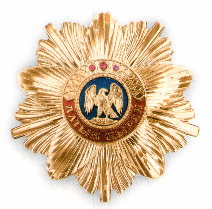 Award of "Gold eagle " ("Алтын қыран") - the maximum{supreme} award of Republic Kazakhstan. A star of an award.